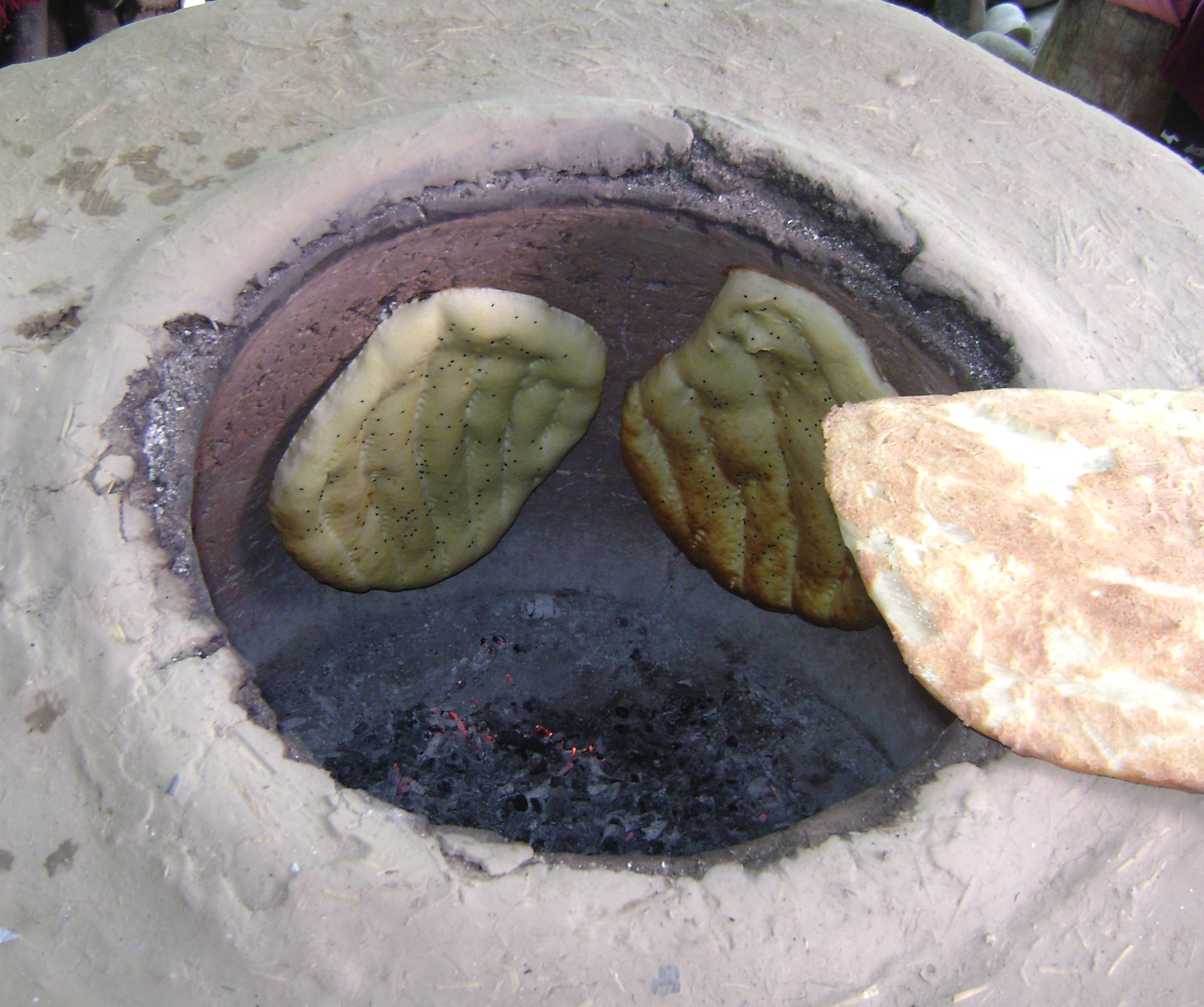 Cooking bread in Tandoor.